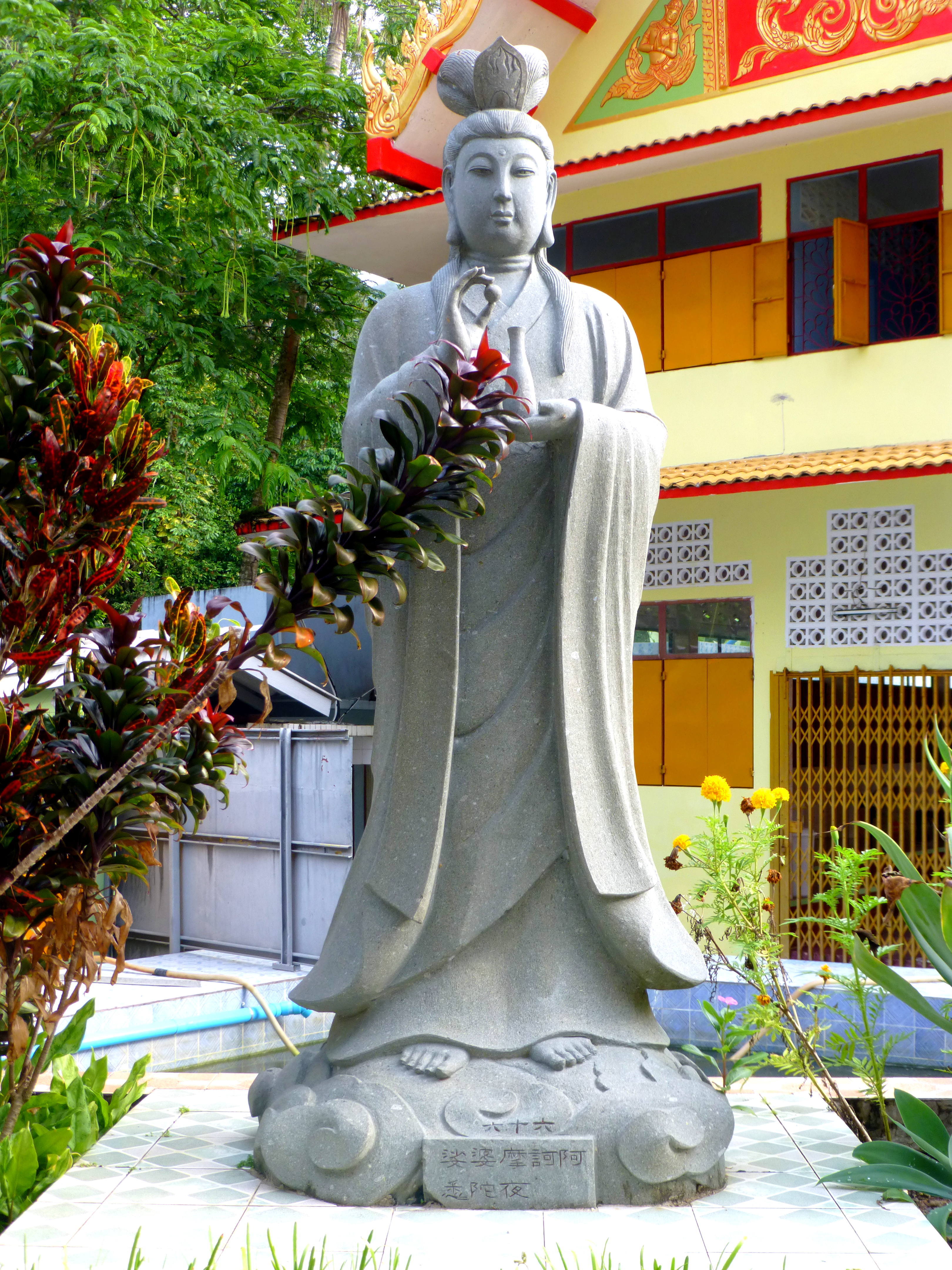 66 sa po mo he a si tuo ye, Wat Khao Rup Chang, Songkhla, Thailand Photograph from Wat Tham Khao Rup Chang in Songkhla Province, Thailand taken by Anandajoti.